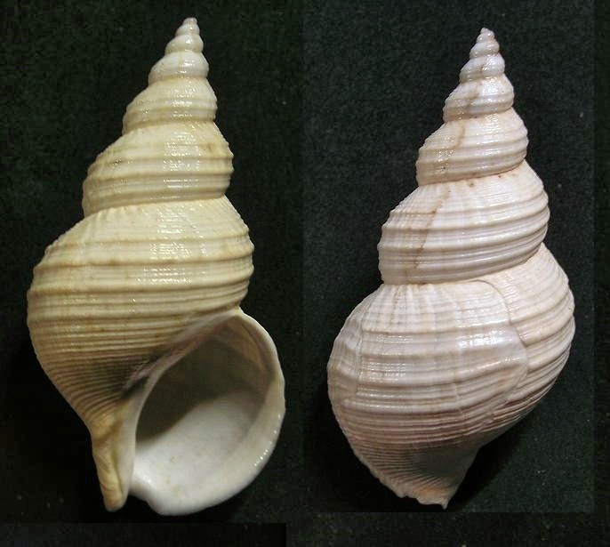 Buccinum leucostoma Lischke, 1872 , a whelk from Japan